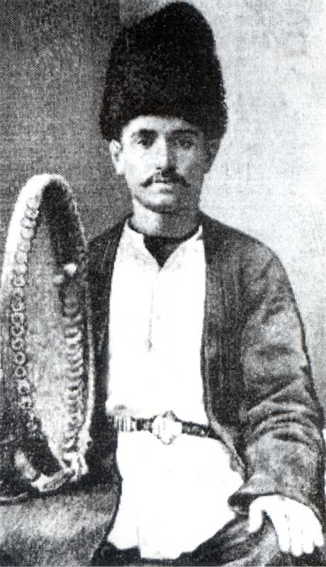 Azerbaijani mugam-singer from Shusha Husi Haji